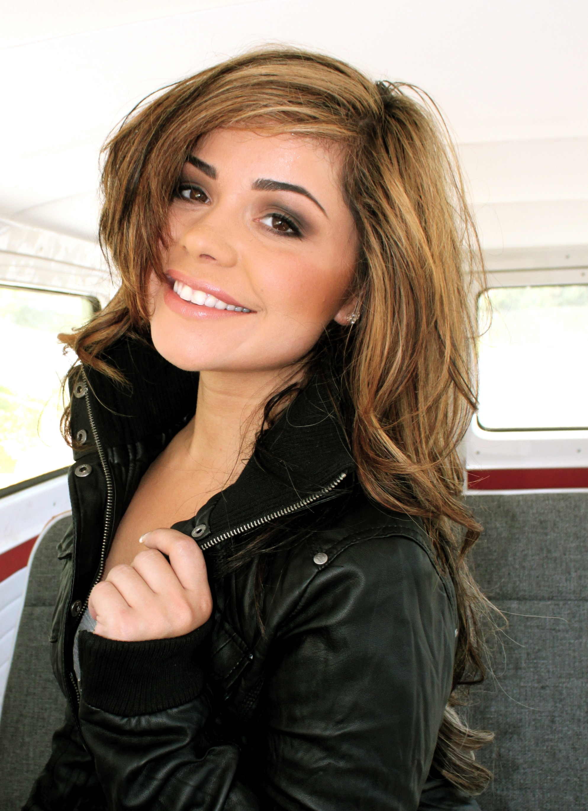 Jaden Michaels